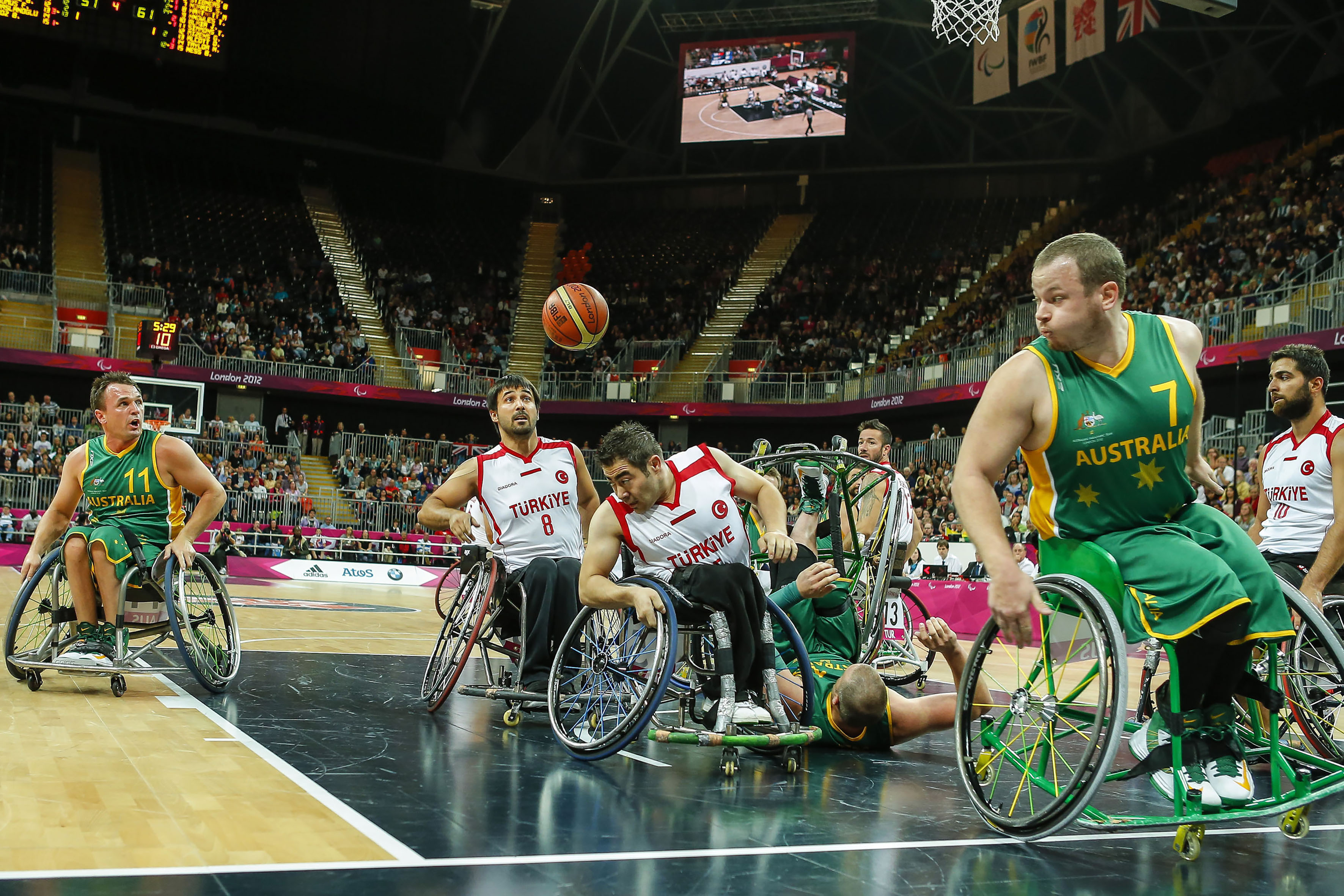 Photograph of Australian Paralympic team member Shaun Norris at the 2012 Summer Paralympic Games in London